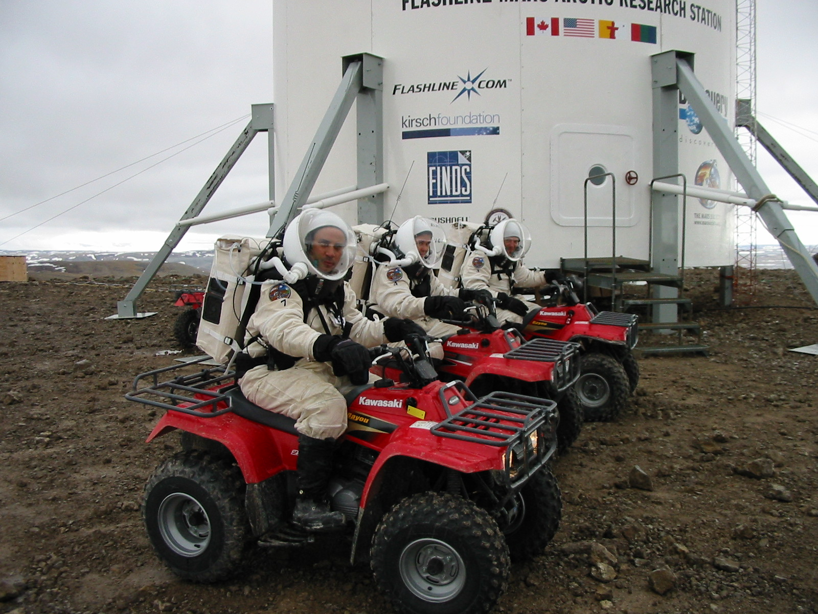 Robert Zubrin, Vladimir Plester, and Katy Quinn of FMARS Crew 2 prepare to begin a motorized EVA on July 15, 2001.